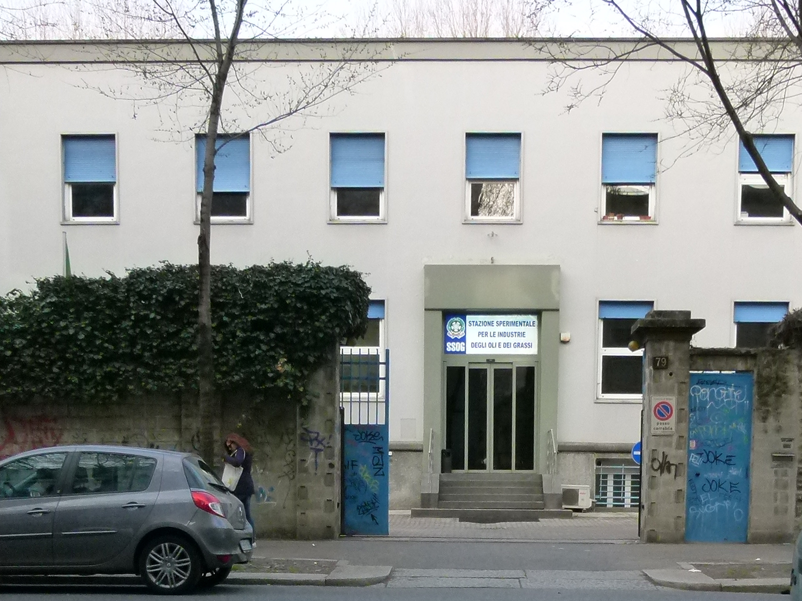 Italian Stazione Sperimentale per le Industrie degli Oli e dei Grassi (Oils and Fats Experimental Station) in Milan